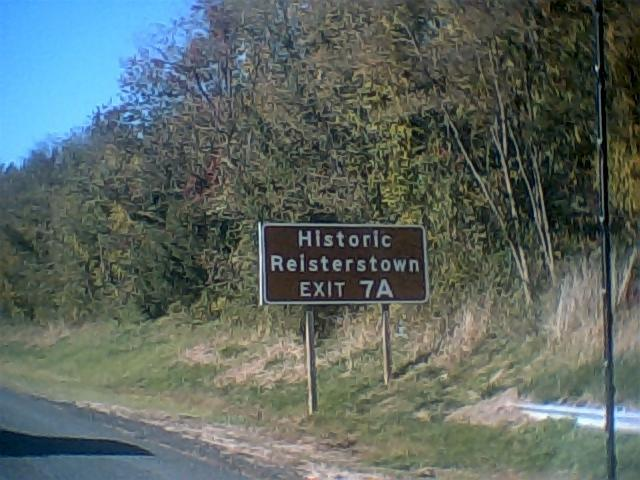 Historic Reistertown Exit on I-795 (Maryland)